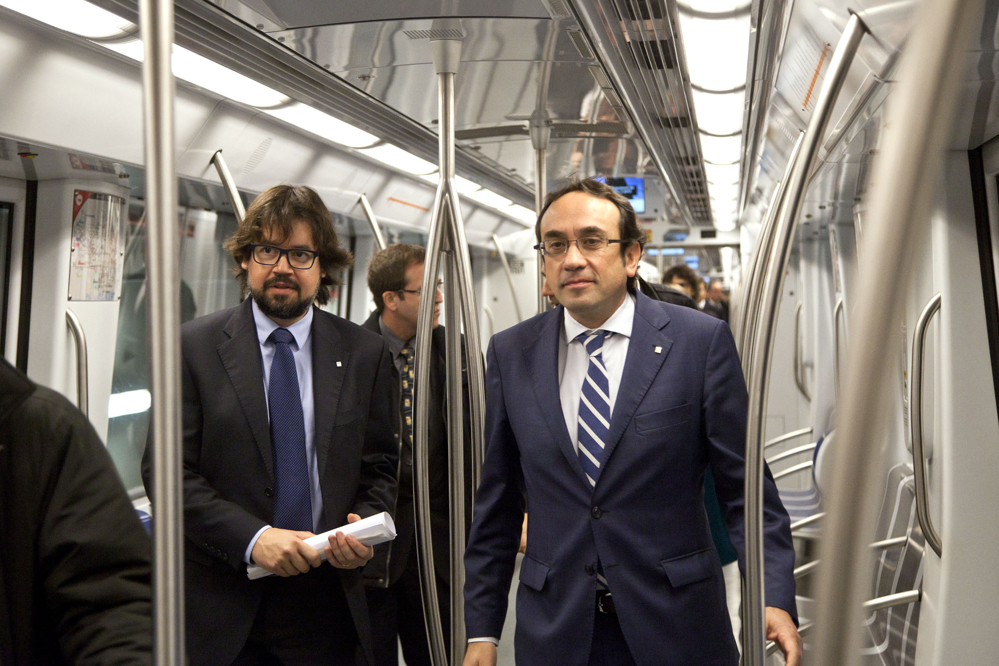 Nou tram de la línia 9 (L9) del Metro de Barcelona